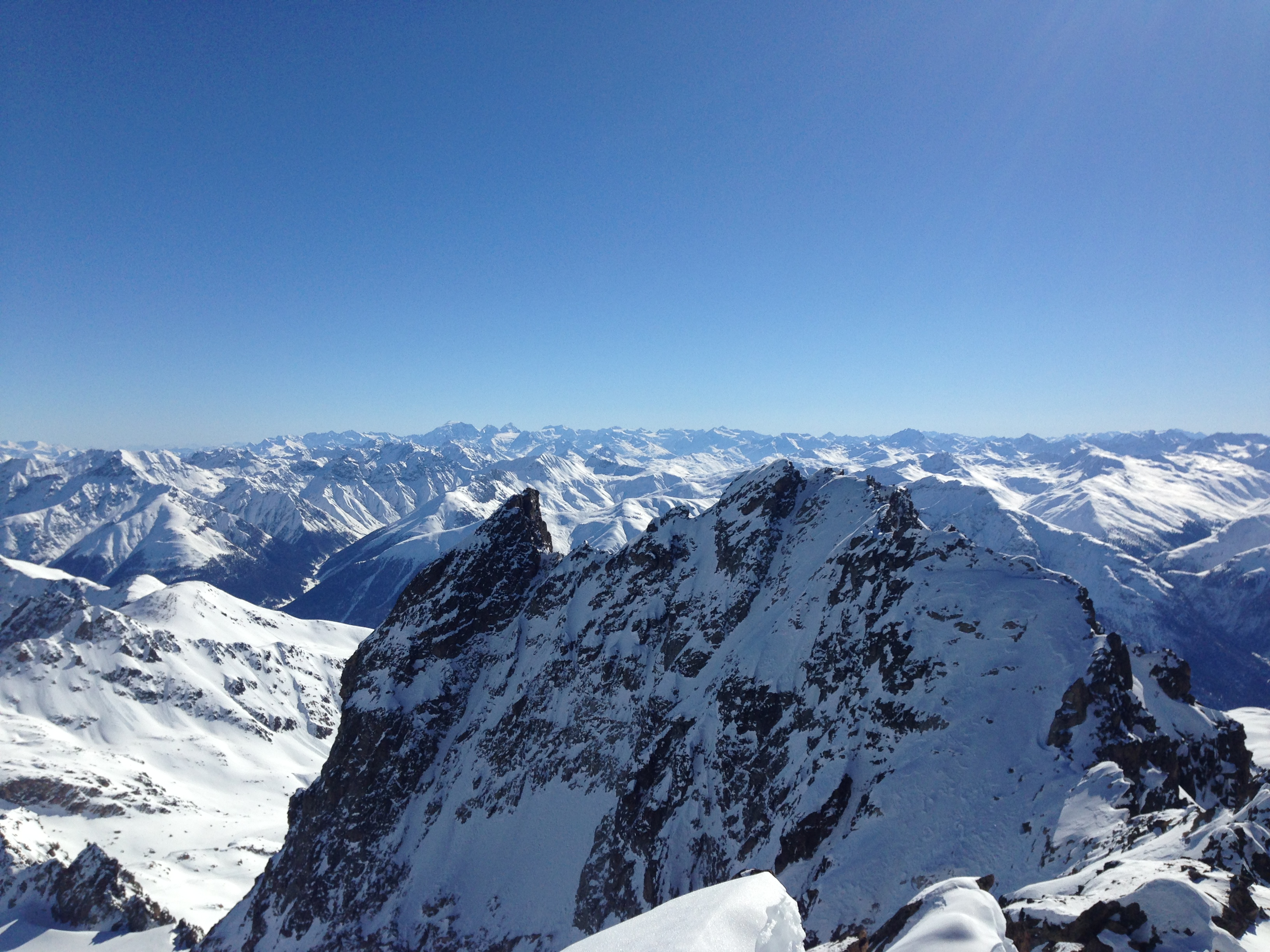 Aguoglia d'Es-cha as seen from Piz Kesch (Bergün/Bravuogn / Zuoz, Grison, Switzerland)